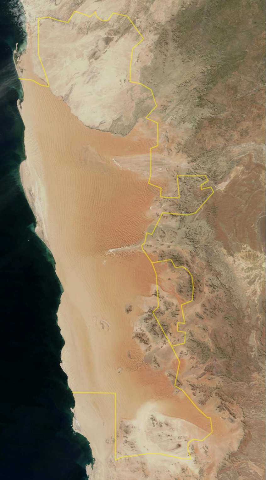 Borders of the Namib-Naukluft National Park and NamibRand private nature reserve